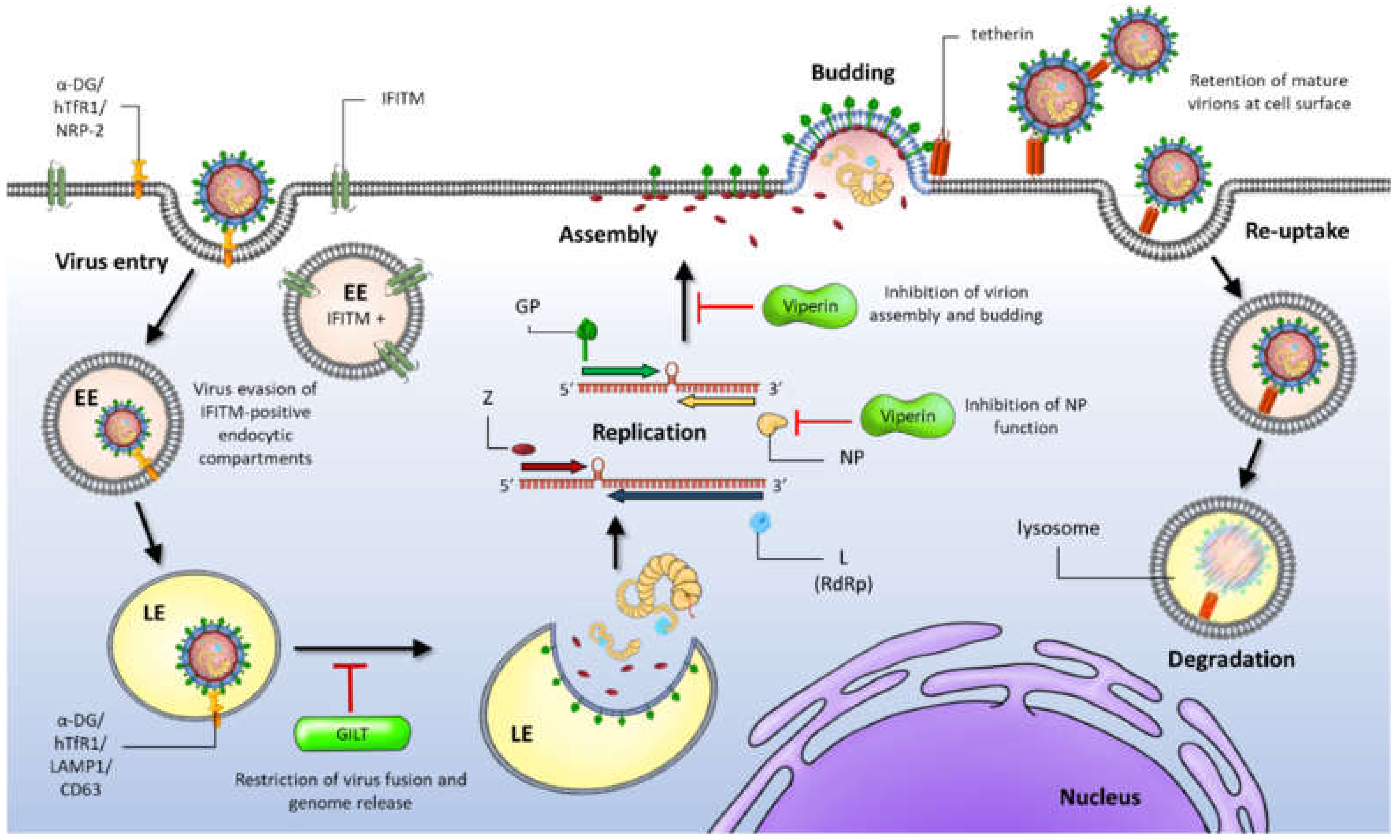 Host restriction factors involved in arenavirus infection. The IFITMs block entry at the sites of fusion within endosomal compartments or at the plasma membrane. Arenavirus particles, however, enter by trafficking through endosomal compartments that lack IFITM expression. Fusion in late endosomal compartments is inhibited by gamma-interferon-inducible lysosomal thiol reductase (GILT) expression. Viperin inhibits virion assembly by restricting the trafficking on arenavirus glycoproteins to the cell surface. Viperin also inhibits NP function by restricting recruitment of replication-transcription complexes orchestrated by NP, to lipid droplets. The membrane protein tetherin mediates retention of budding virions at the cell surface which are then proposed to be re-internalized and delivered to lysosomes for degradation.